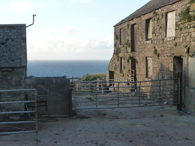 Cropped version of this photo of Pendeen House